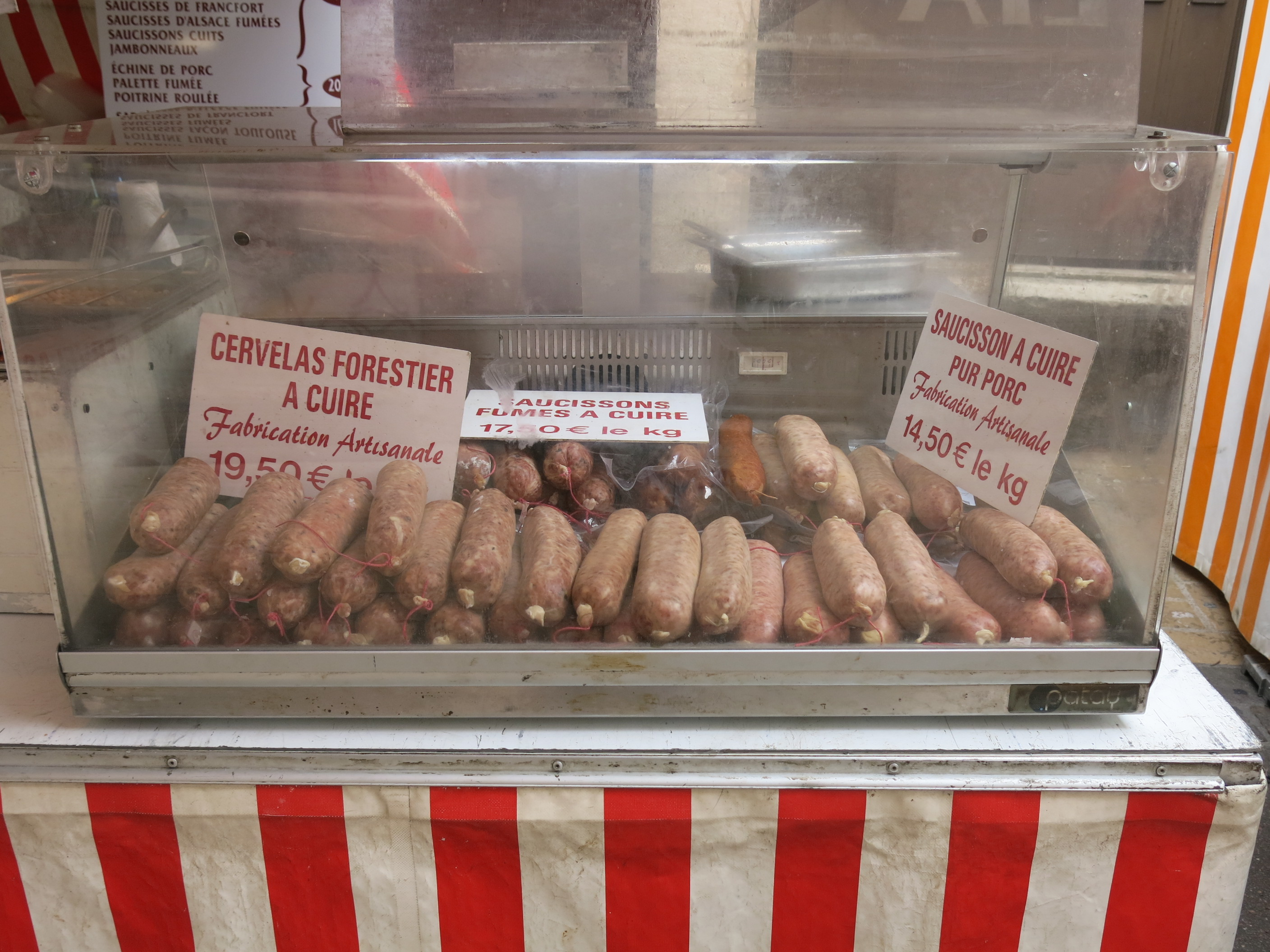 Saucissons (=French summer sausages) to be cooked on the market of Tournus (Saône-et-Loire, France).